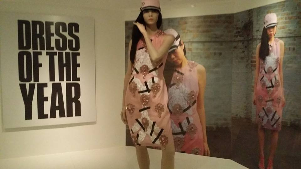 Christopher Kane dress of sugar-pink silk organza dress trimmed with white lace, diamanté and black duct tape. Chosen as Dress of the Year 2013 by the blogger Susanna Lau and exhibited at the Fashion Museum, Bath. Photographs of Susanna Lau are shown in the background of the display and the Adel Rootstein mannequin appears to be modelled on her.